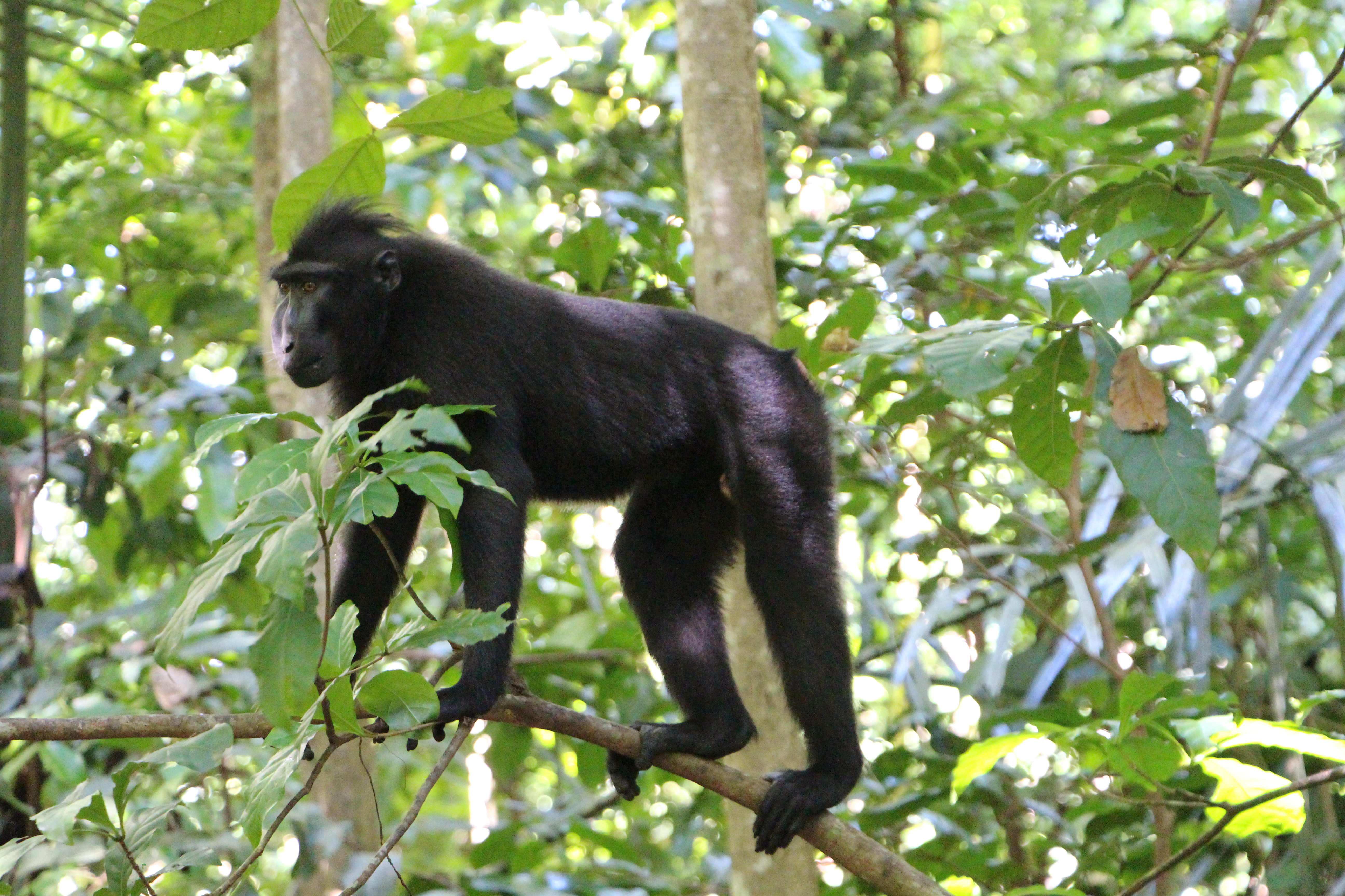 Celebes crested macaque photographed in Tangkoko National Park (Sulawasesi, Indonesia)